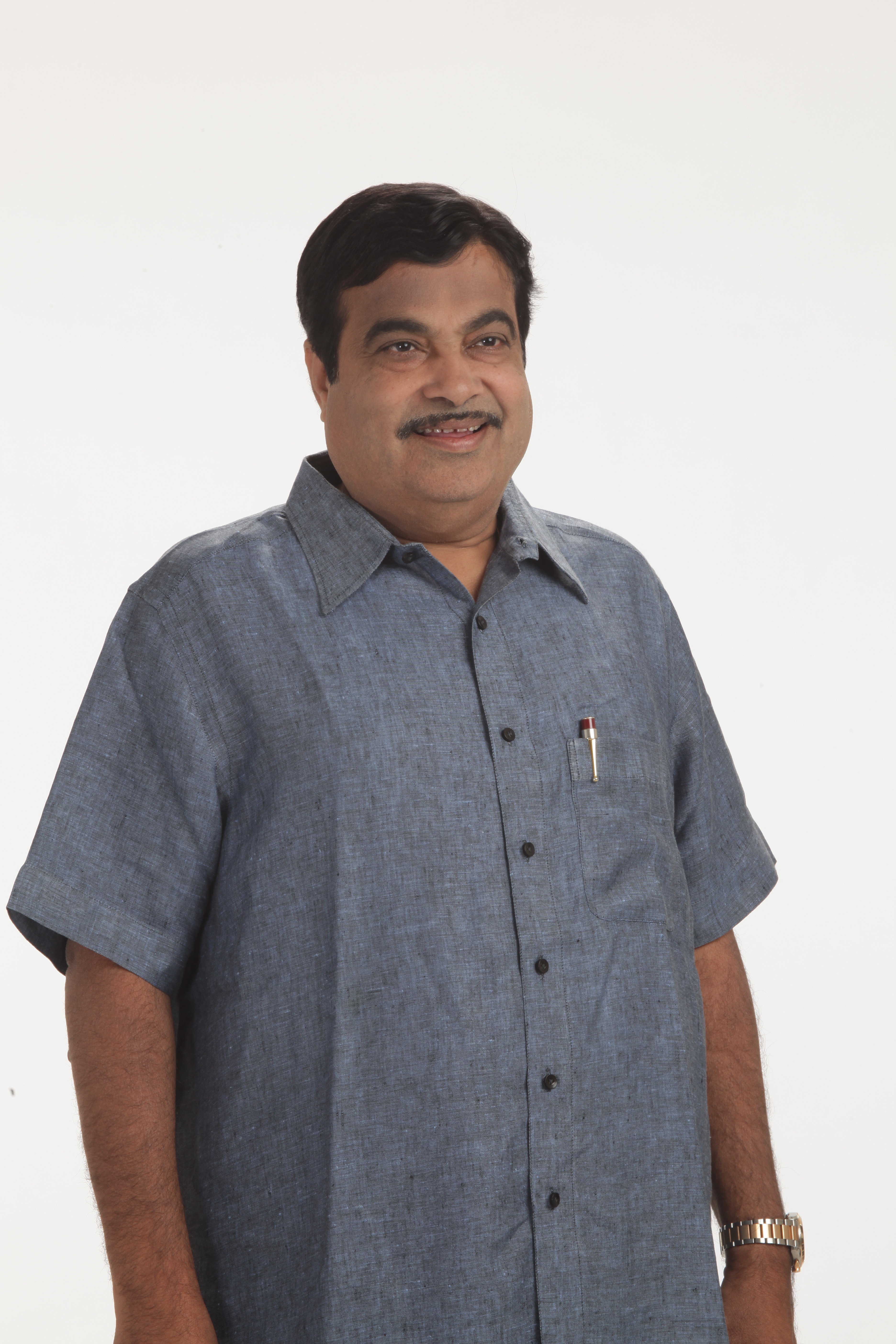 Nitin Gadkari, a politician from Nagpur, Maharashtra India.